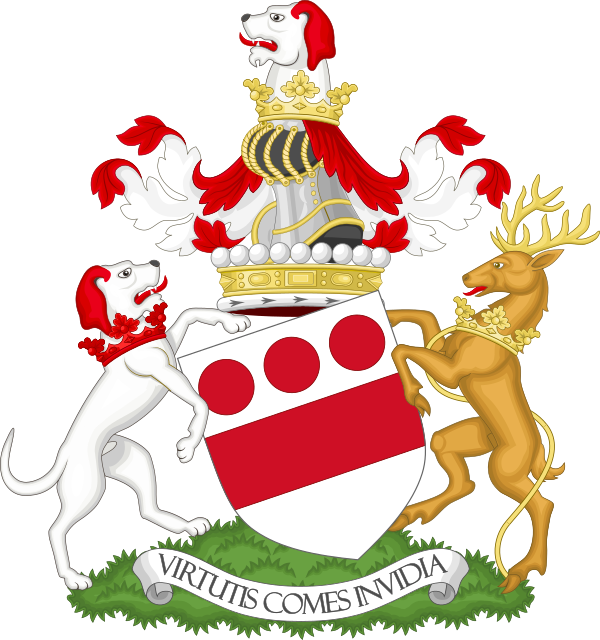 coat of arms of the viscount Hereford - Premier viscount of England Arms. Argent, a fess gules in chief three torteaux. Crest. Out of a ducal coronet or, a talbot's head argent eared gules. Supporters. Dexter: a talbot's argent eared gules, ducally gorged, of the last; sinister : a reindeer proper, gorged with a ducal coronet and lined or. Motto. Virtutis comes invidia. Cracroft's Peerage